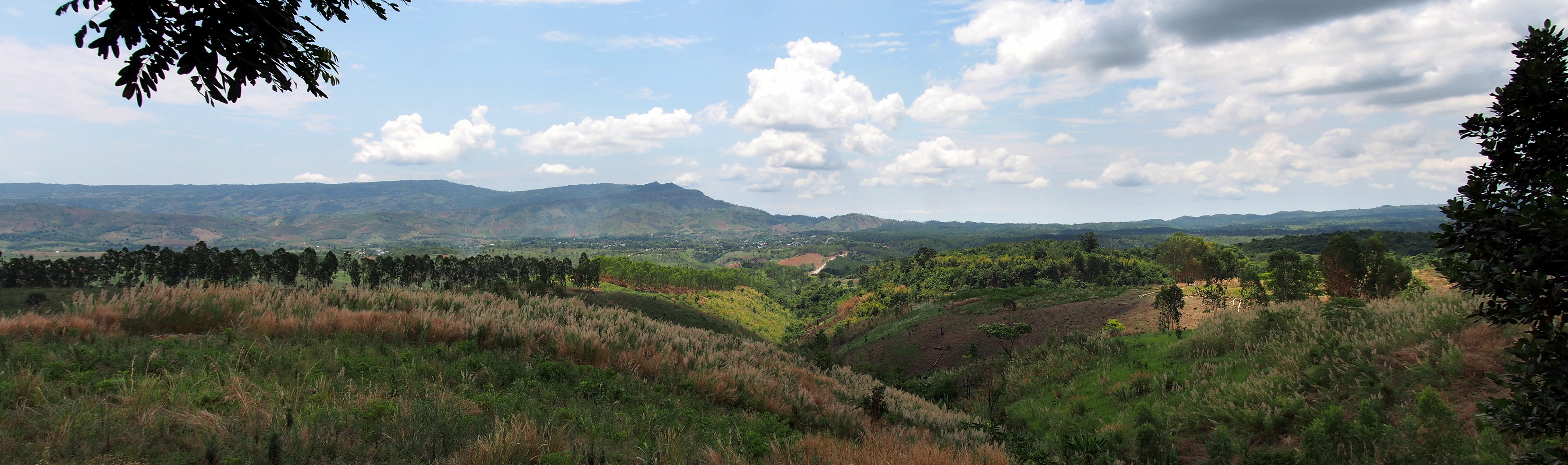 View to the east from Thai Highway 12/Asian Highway 16 of the countryside in the Phetchabun Mountains in Phitsanulok Province, at the beginning of the rainy season, May, 2013. The village in the distance is Khek Noi, in Phetchabun Province. This image was created with Hugin